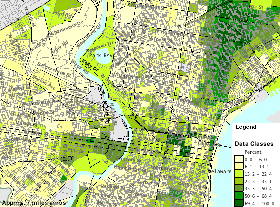 Original description: Map showing the percent of persons 5 years and over who spoke a language other than English at home in 2000. Note that this shows only a portion of the city (Center City and its bordering sections). NW and NE sections are not pictured.